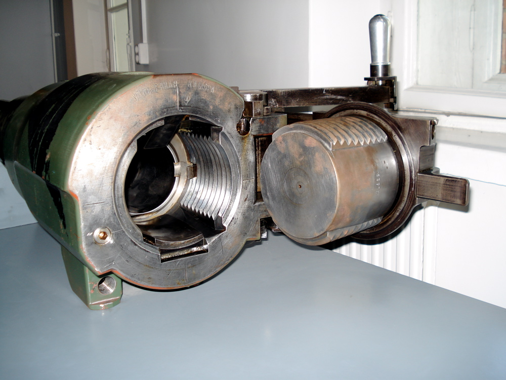 Barrel from Finnish 105 mm H37 howitzer joined to a modified breech from Russian 122 mm M1910 howitzer, displayed in Hämeenlinna Artillery Museum. This section of the gun was used for demonstration purposes. Photo taken on June 18, 2006. Source: Photo by me, User:Balcer.